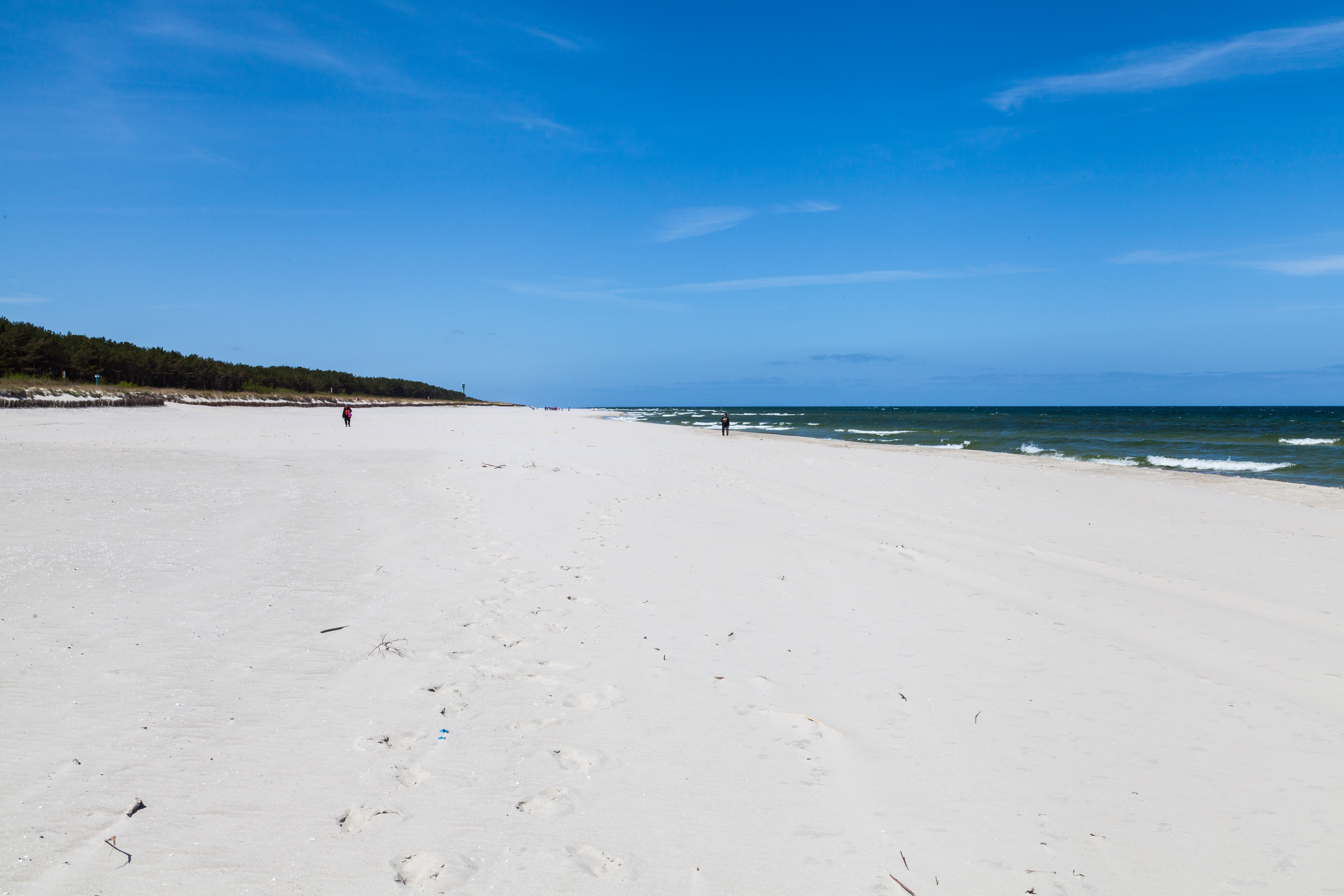 Jurata beach, Hel Peninsula, Poland